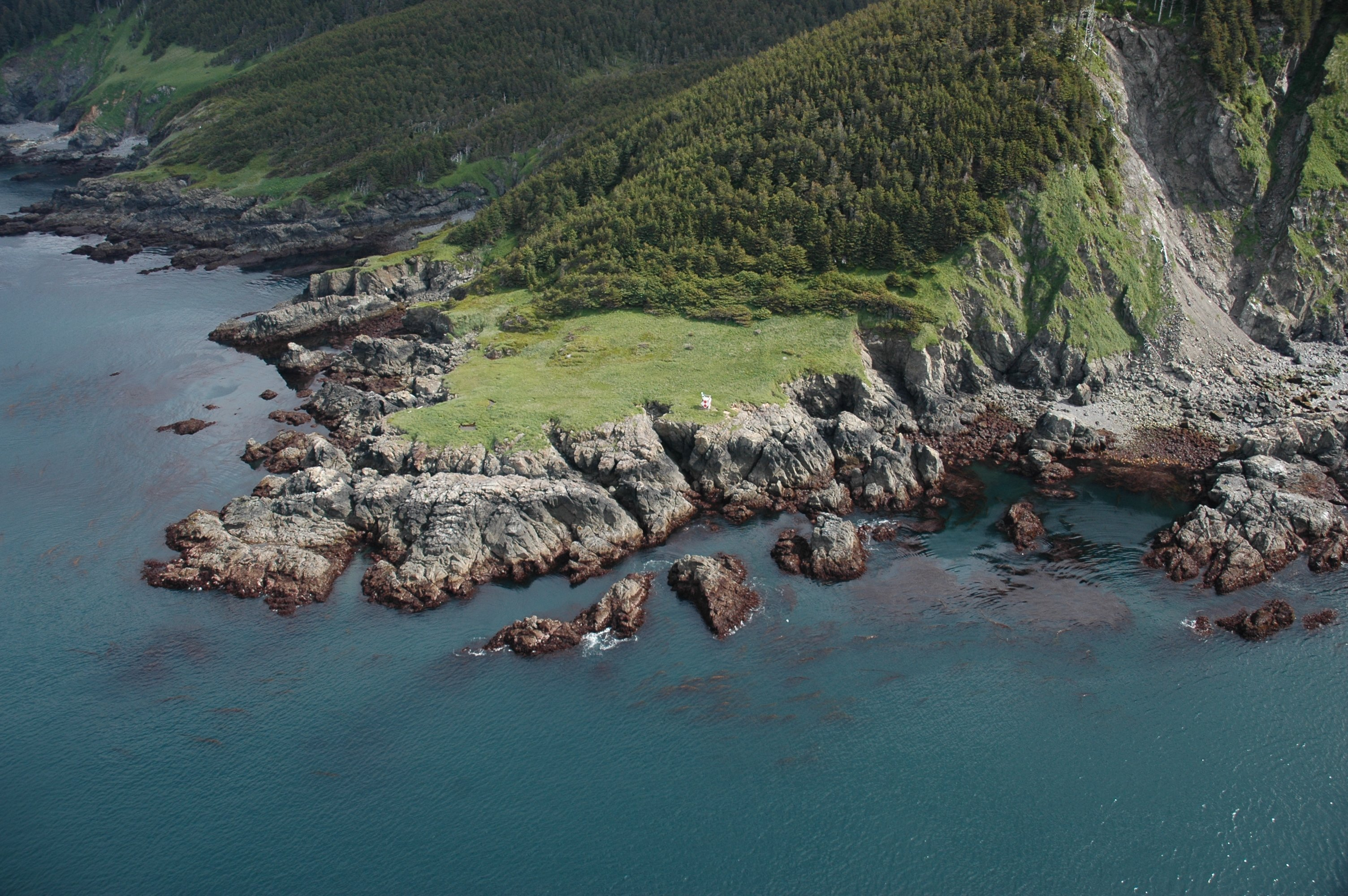 Aerial photograph. The navigation light at the SW tip of Elizabeth Island which marks the SE end of Cook Inlet and SW tip of the Kenai Peninsula. Alaska, Lower Cook Inlet, Kenai Peninsula.